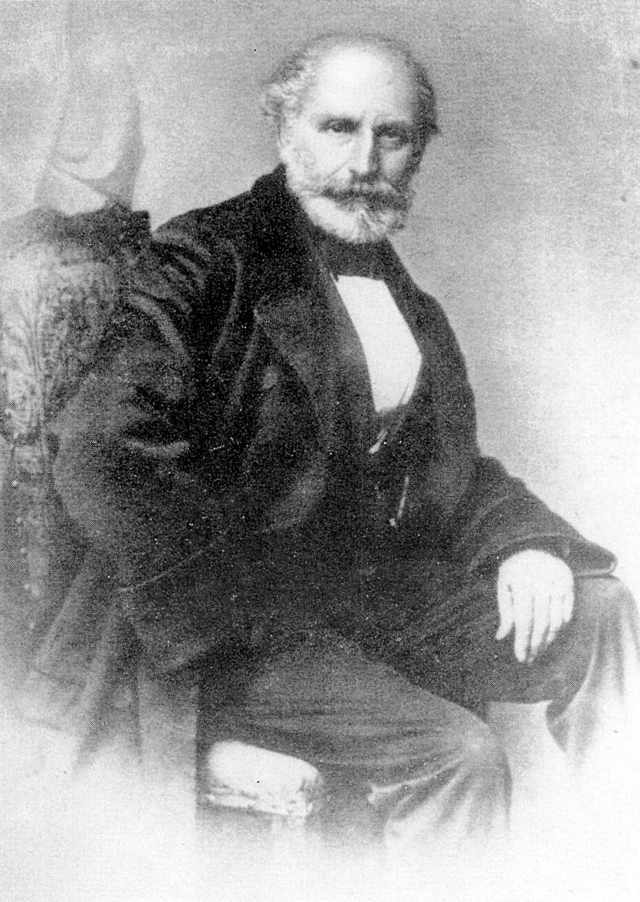 Karl Heinrich Edmund Freiherr von Berg (1800-1874), German forestry scientist and hunter.